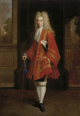 Nicolás Fernández de Córdoba y de la Cerda, 10th Duke of Medinaceli